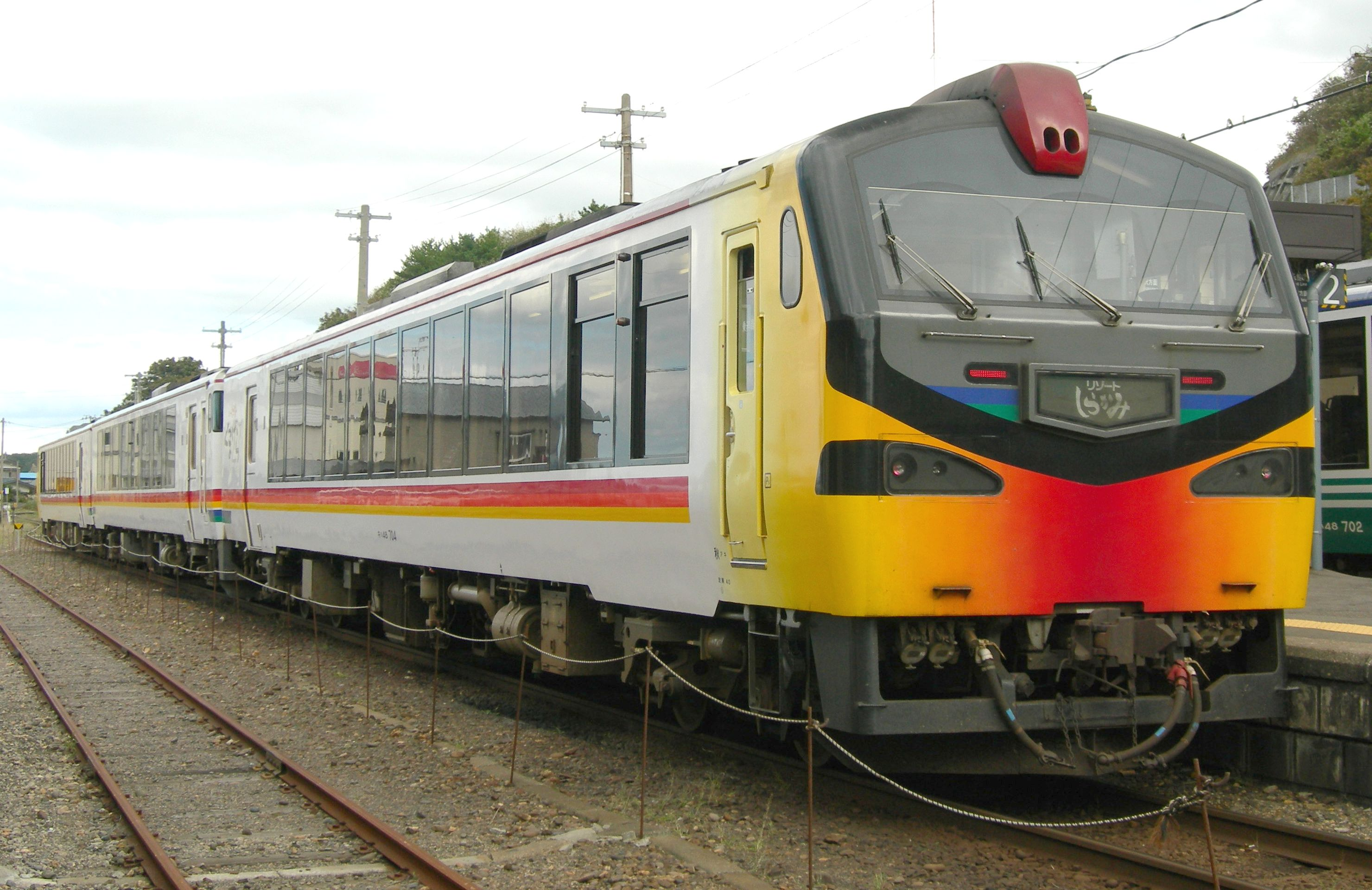 The JR East KiHa 40 series Resort Shirakami - Kumagera 3-car DMU set at Fukaura Station